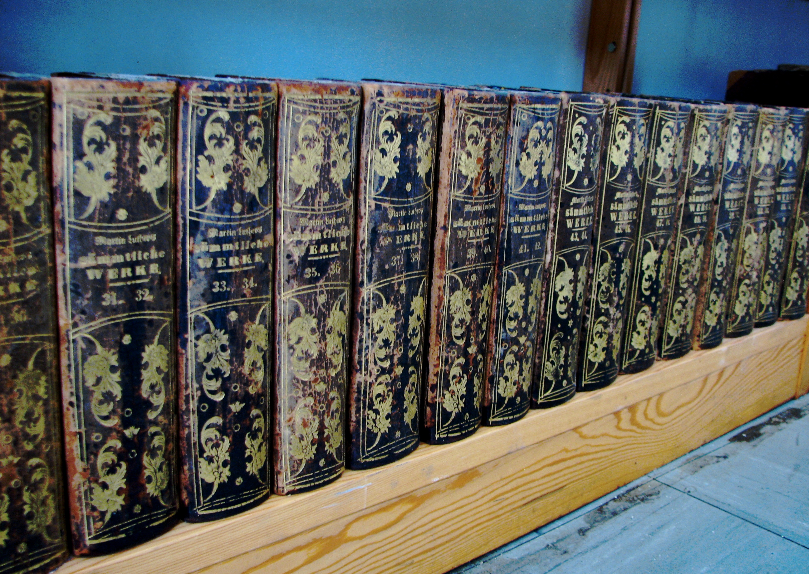 Luther: Sämmtliche Werke